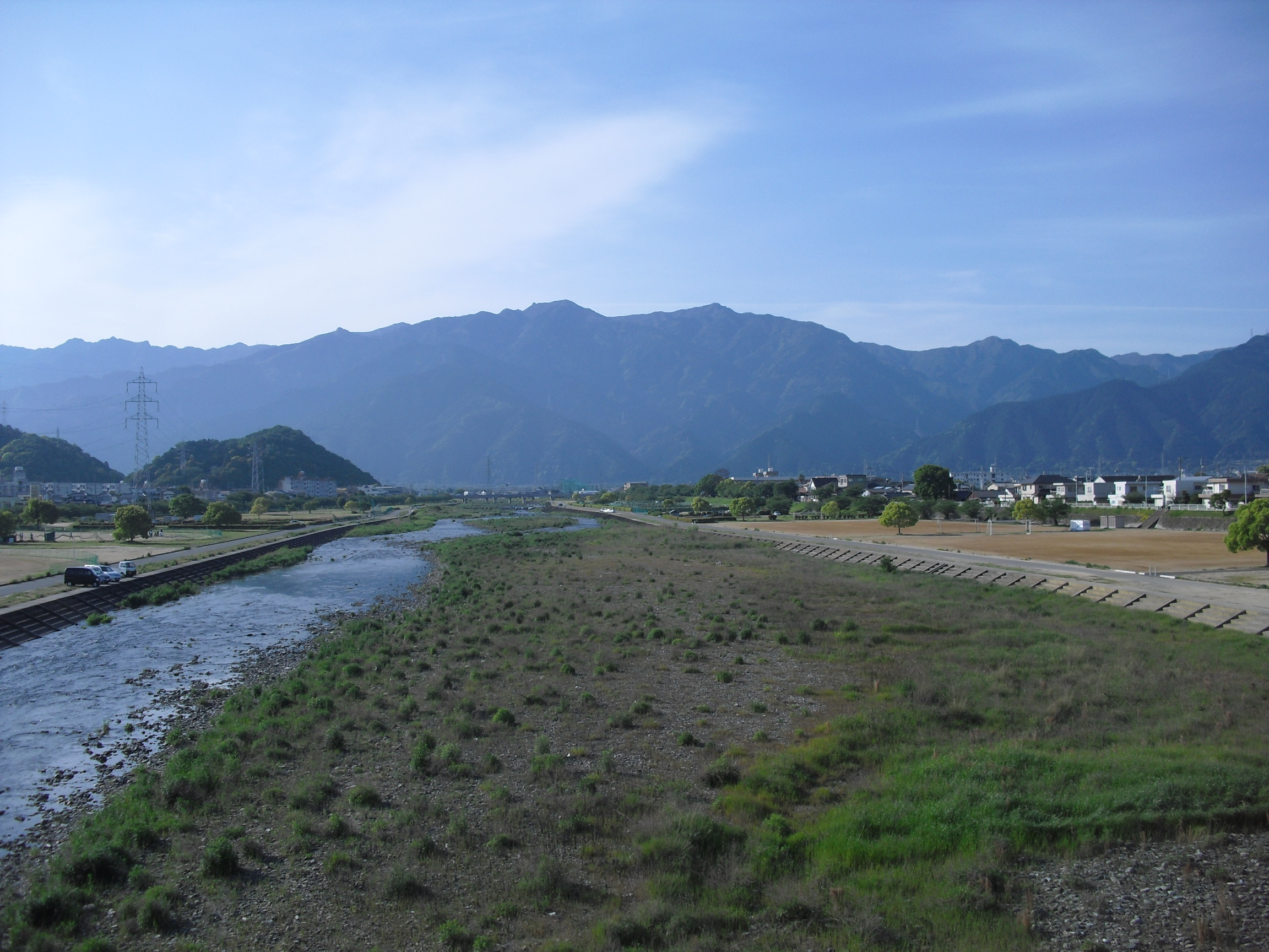 Kokuryo River in Niihama, Ehime Prefecture, Japan.